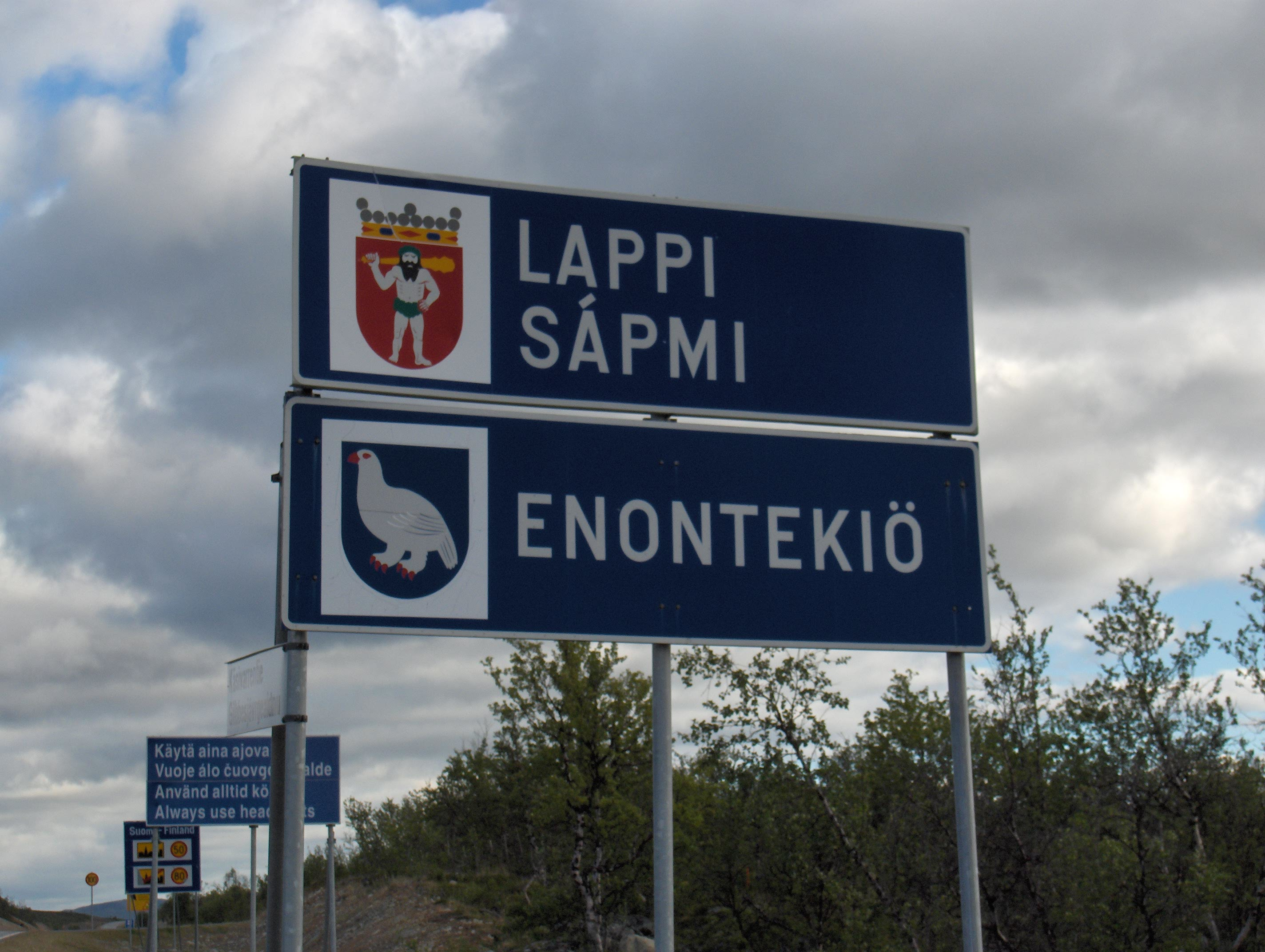 Enontekio and Lapland sign at Finland/Norway border, Kilpisjarvi, Finland